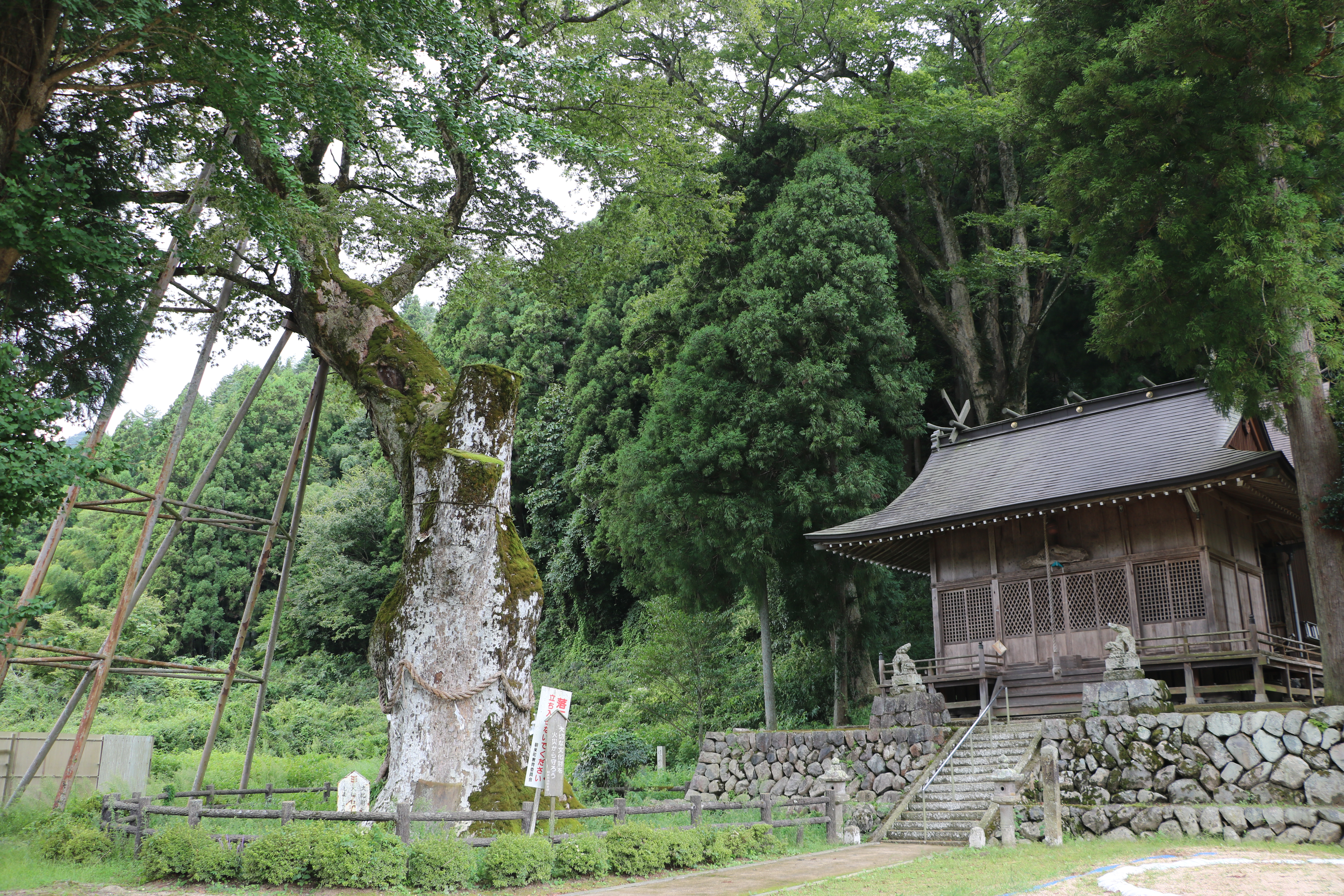 Yashiro-no-Okeyaki